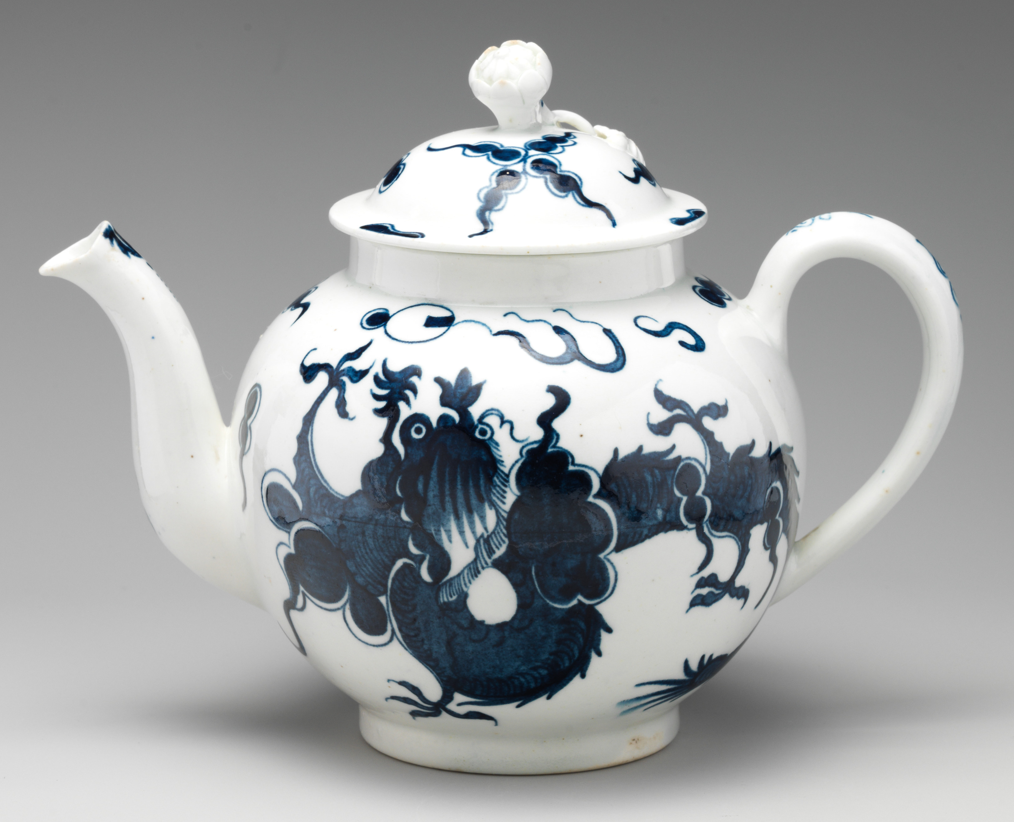 British, Lowestoft; Teapot; Ceramics-Porcelain